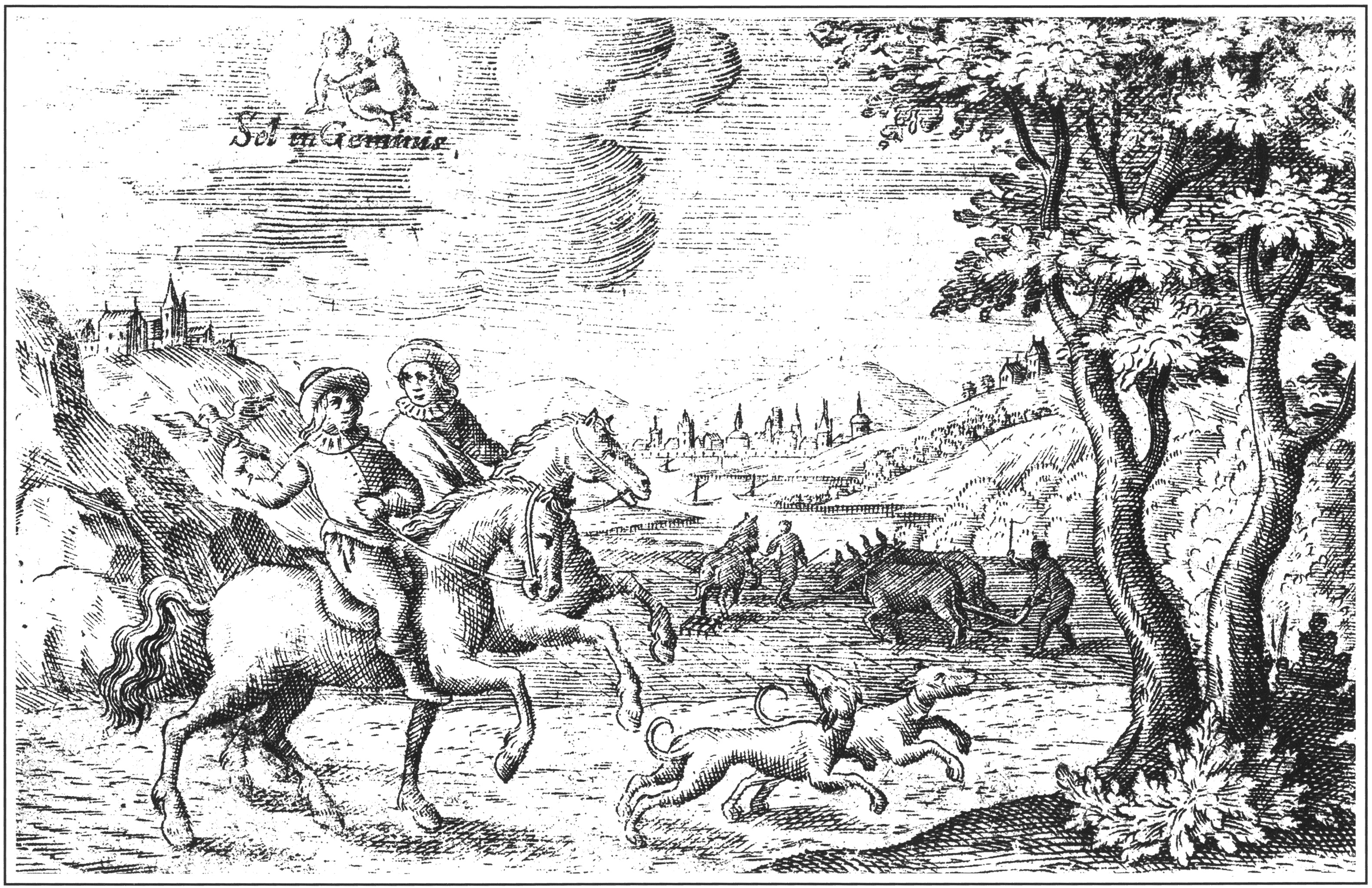 Majus, Aleksander Tarasowicz